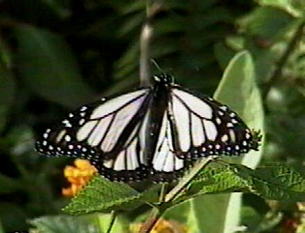 photo circa 2000; taken in our Island of Hawaii gardens by myself using a Canon Hi8 camcorder and Webtv device.